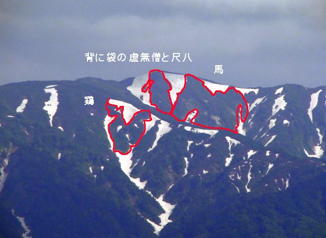 Final stage of the "snow shape" of Sogatake